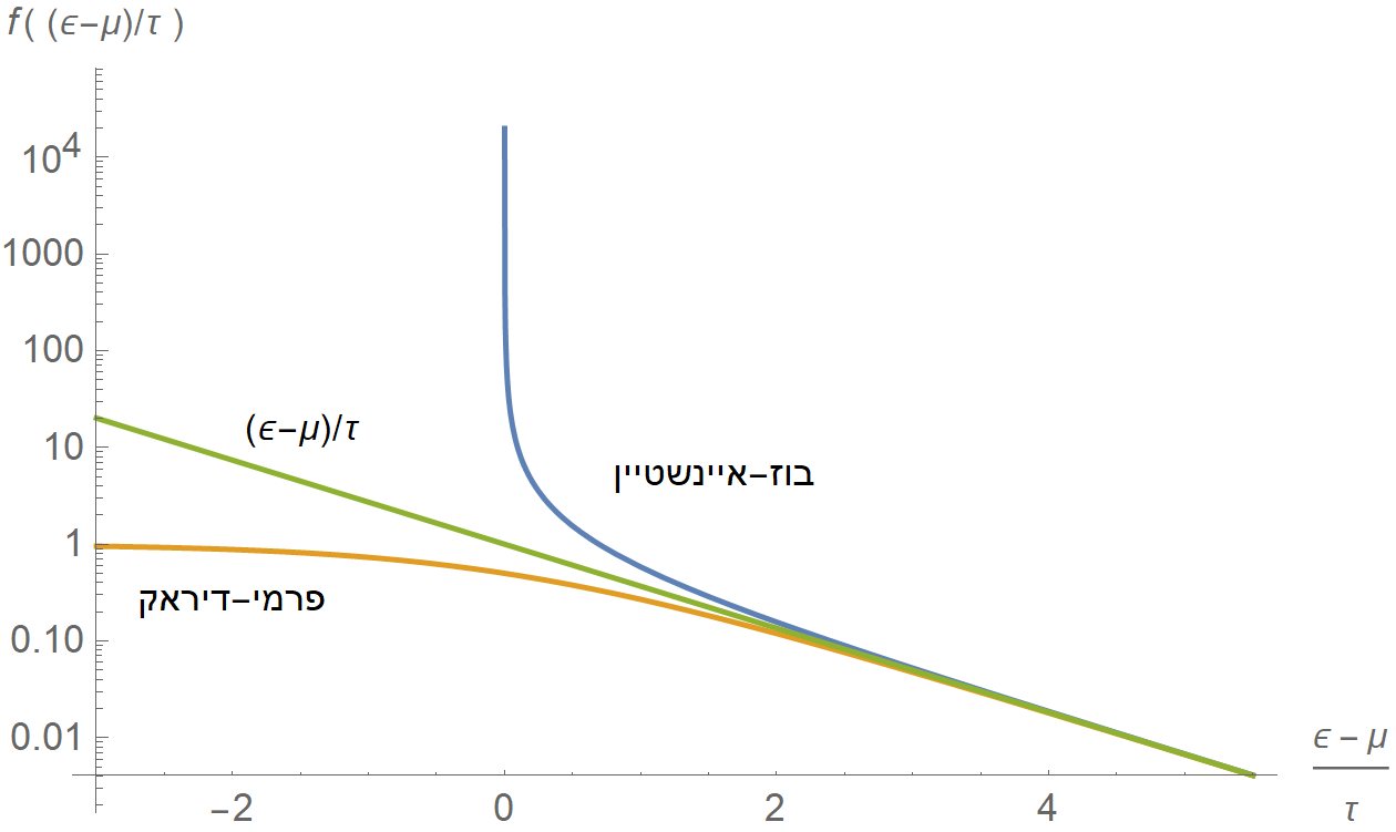 התפלגות בוז-אינשטיין ופרמי-דיראק בגבולות שונים